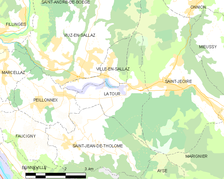 Map of French municipality La Tour